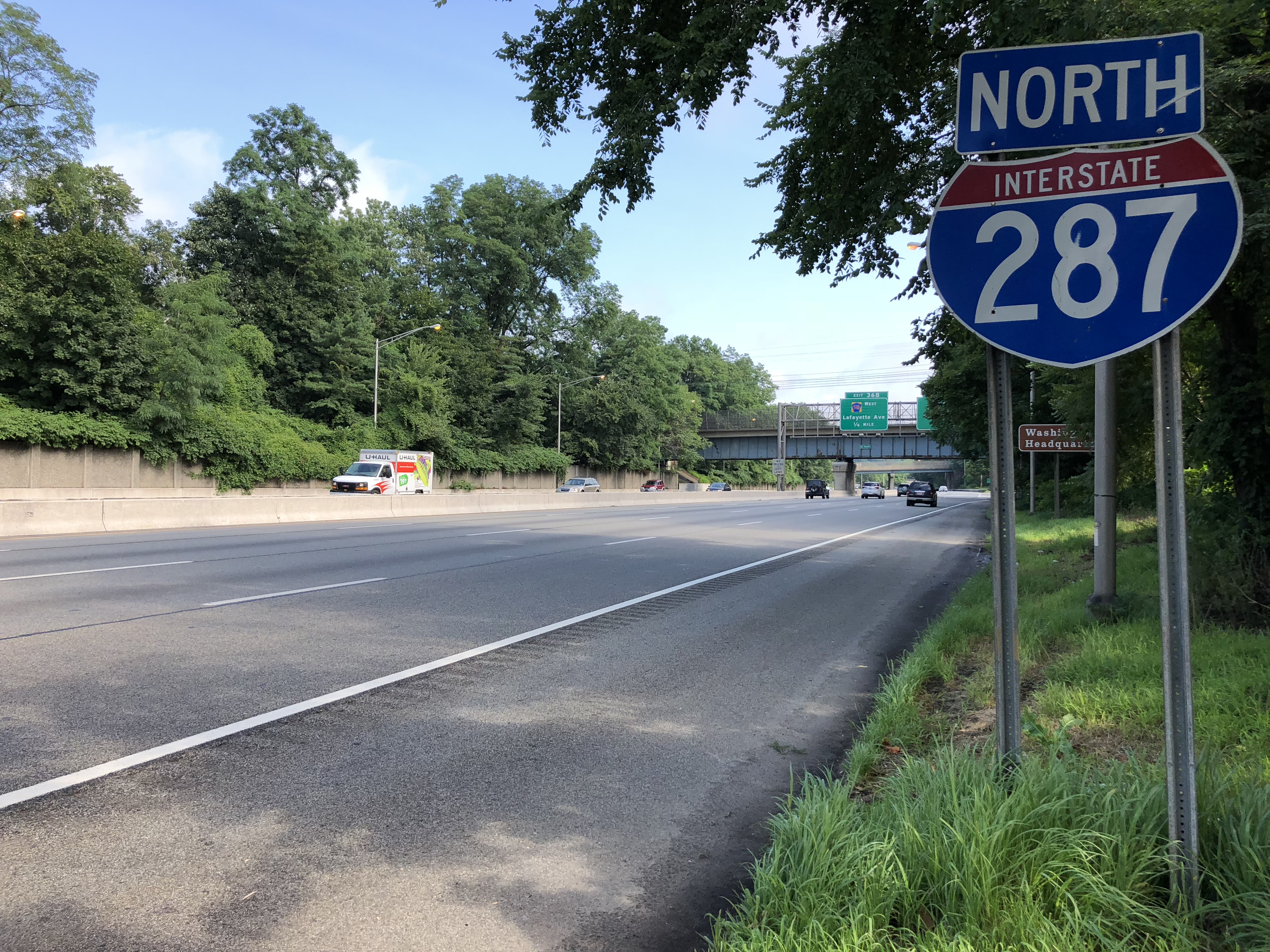 View north along Interstate 287 just south of Exit 36 in Morristown, Morris County, New Jersey